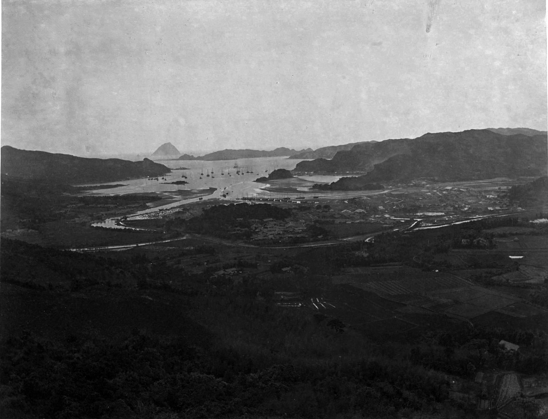 Photograph in From Afong, Photographer.